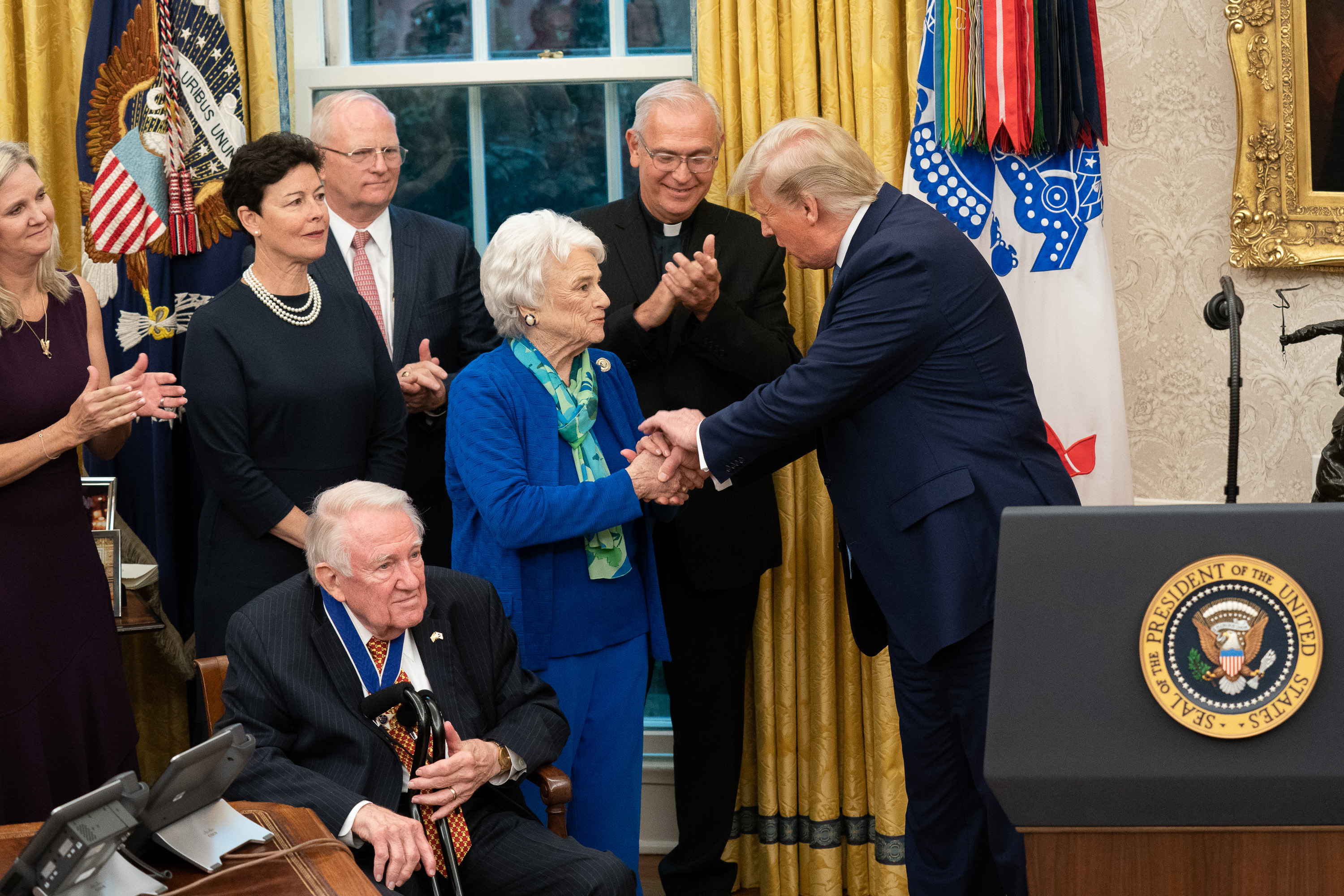 President Donald J. Trump shakes hands after presenting the Presidential Medal of Freedom, the nation’s highest civilian honor, to former Reagan administration Attorney General Edwin Meese III, Tuesday, Oct. 8, 2019, in the Oval Office of the White House. (Official White House Photo by Shealah Craighead)